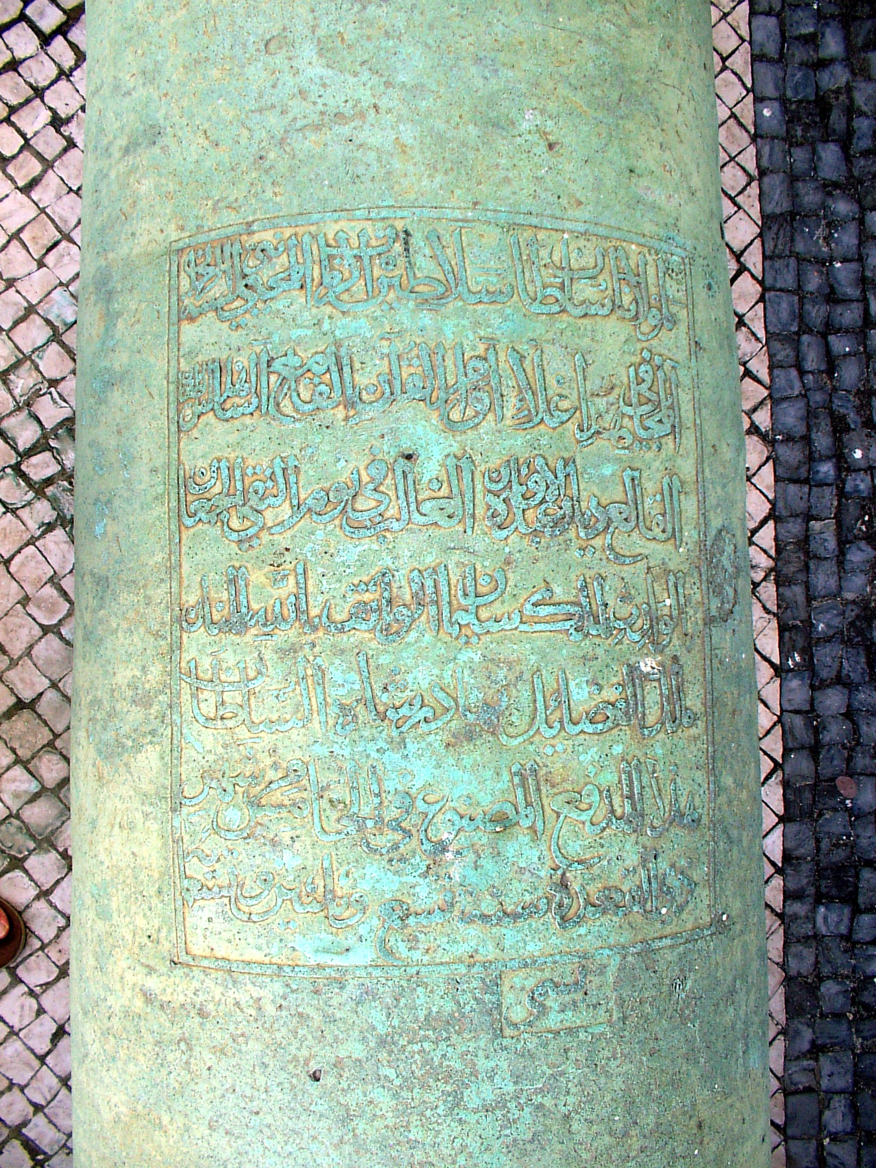 Arabic inscriptions reffering to Bahadur Shah Sultan of Gujerate